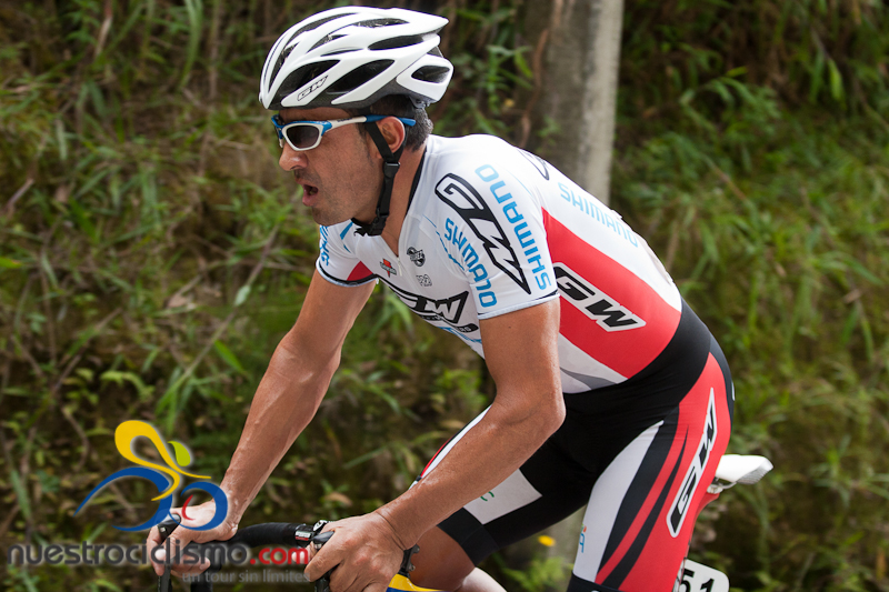 Félix cárdenas, colombian cyclist of the team GW Shimano